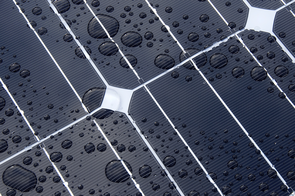 Raindrops on the solar panels at the Baldock Solar Highway project.